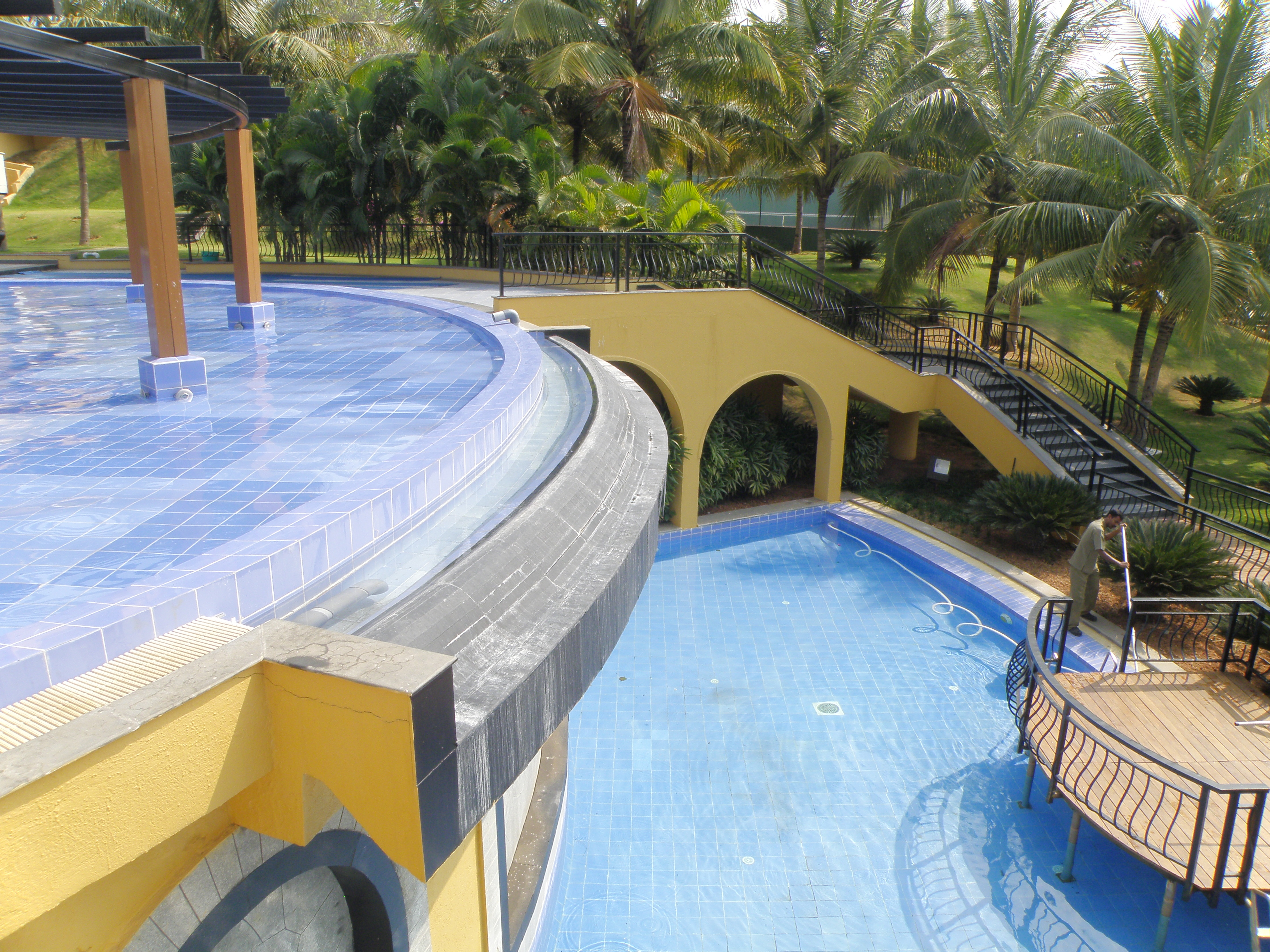 Infinity edge of the swimming pool in Infosys, Mysore.